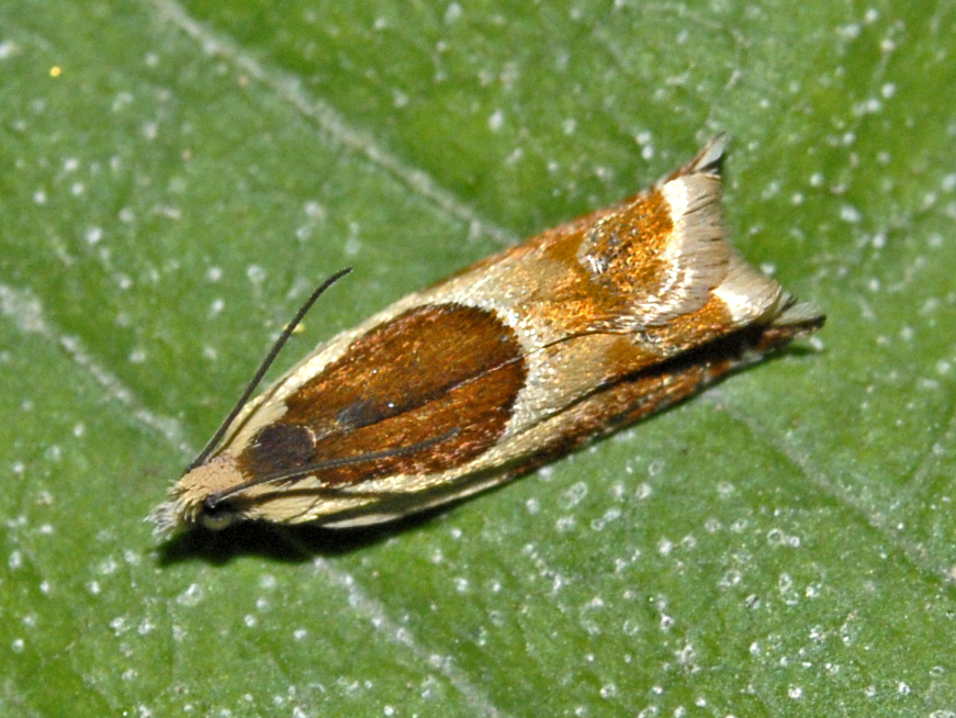 Ancylis badiana. Passo del Faiallo, Genova, Italy